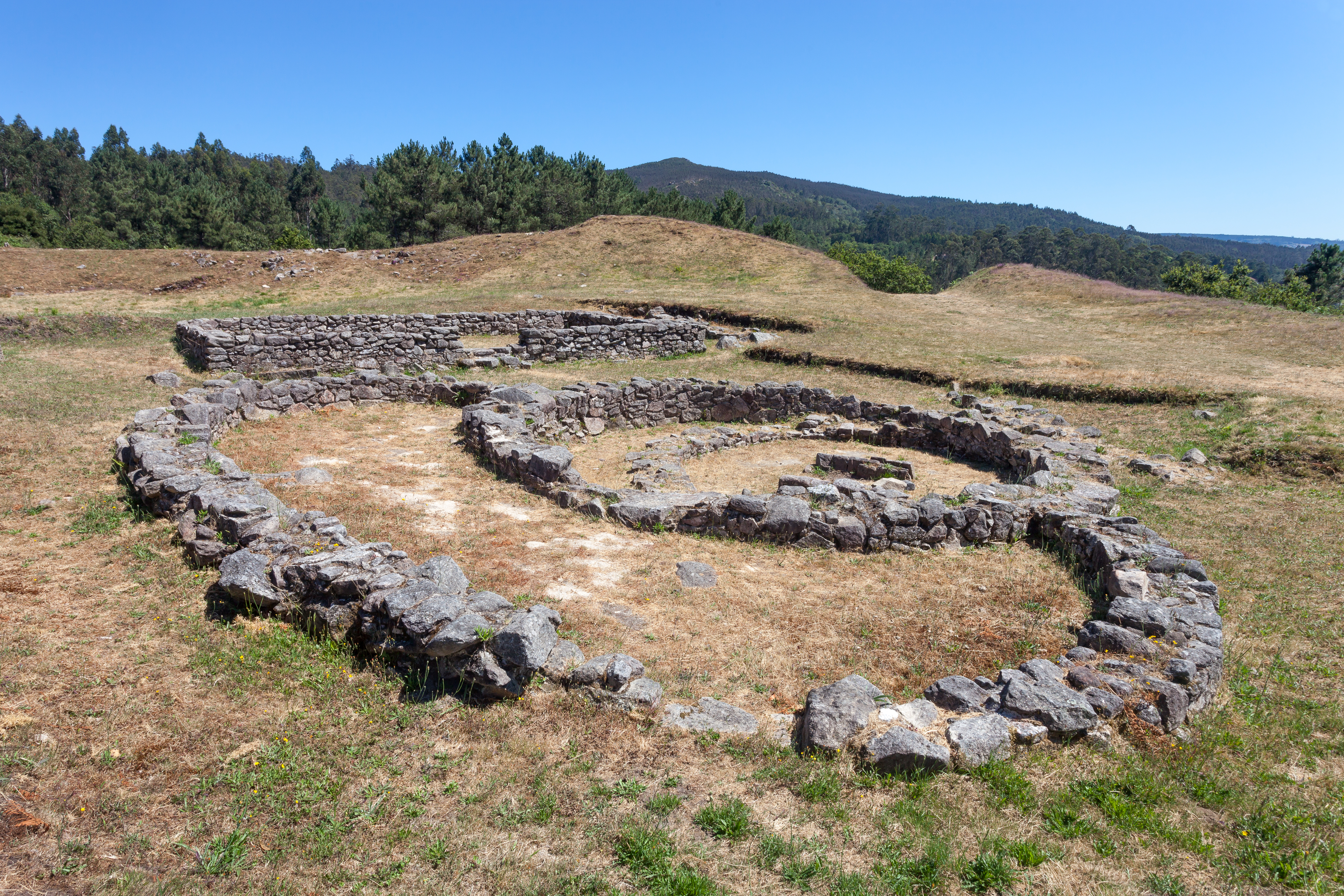 Hill fort of Castrolandín, Cuntis, Galicia (Spain).